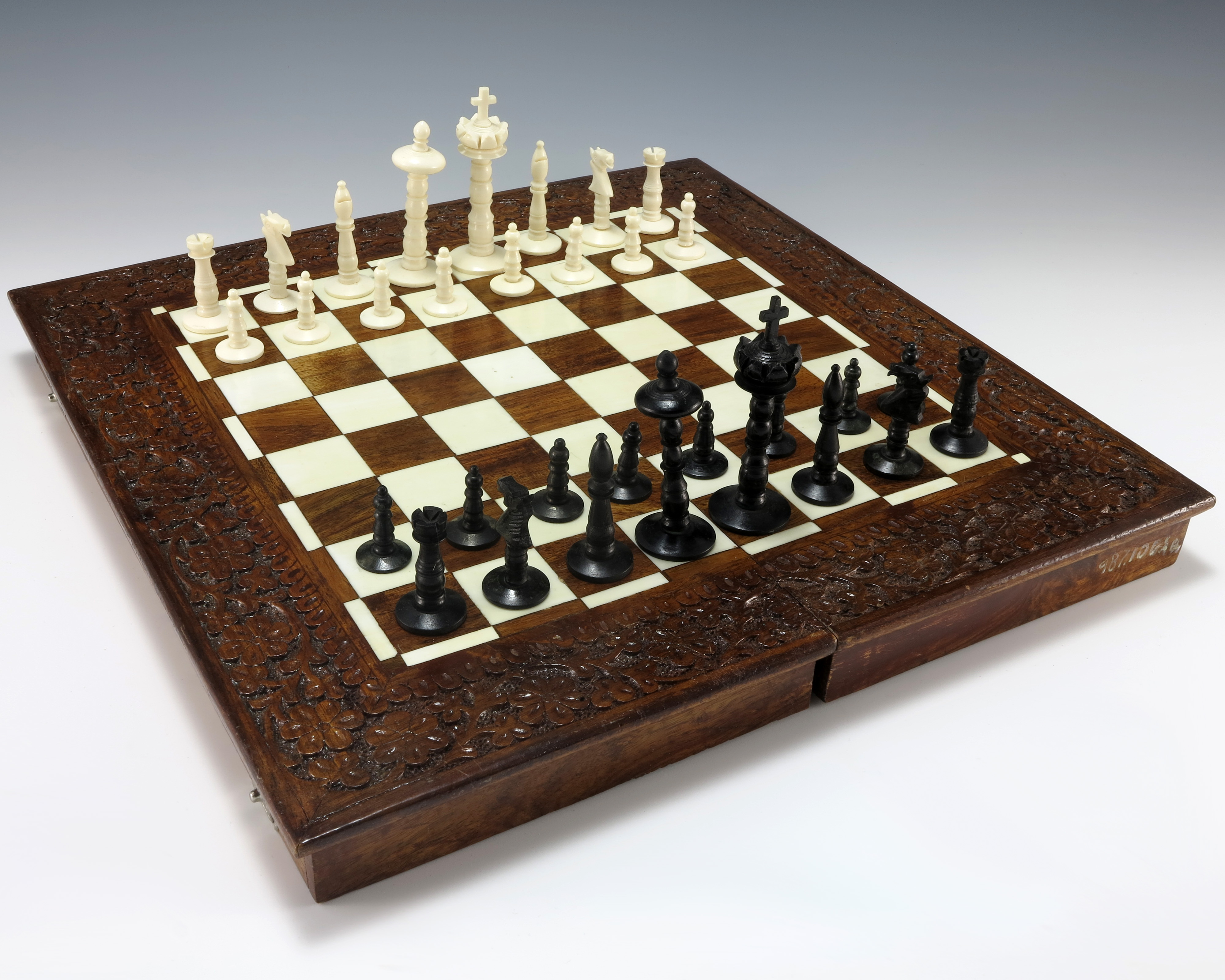 A hand-turned and carved ivory chess set containing 16 black and 16 white pieces. The chessboard is made of wood with ornate floral carvings around the playing surface. The playing surface has alternating squares of ivory and wood inlay. The board is hinged in the center for storage, and inside is lined with red velvet. Gift of Zulfikar Ali Bhutto, Prime Minister of Pakistan.